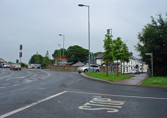 Road junction: Dunsaughlin, Co. Meath